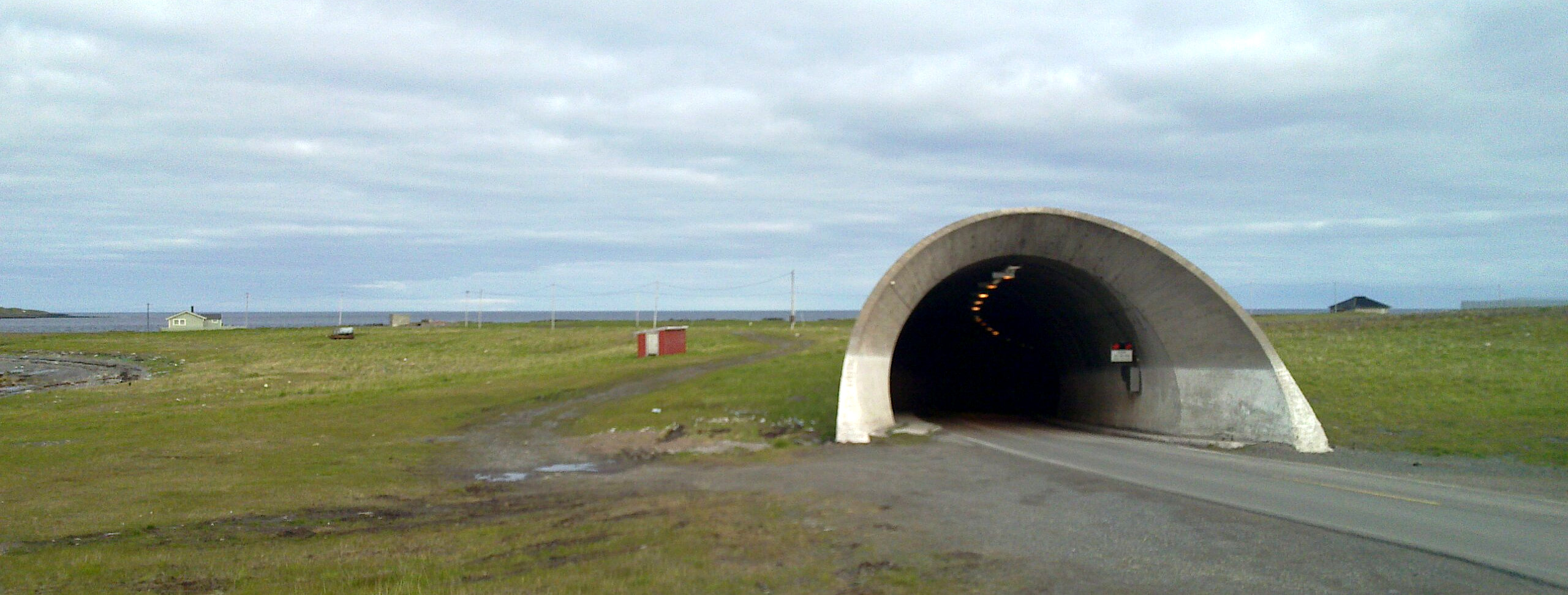 Tunnel of Vardø, Finnmark, Northern Norway